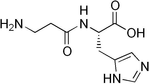 chemical structure of carnosine